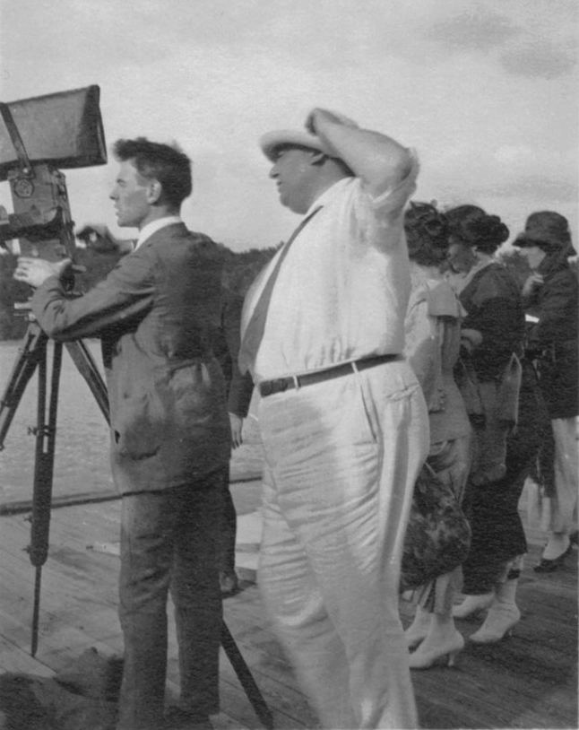 Léonce Perret's photo.